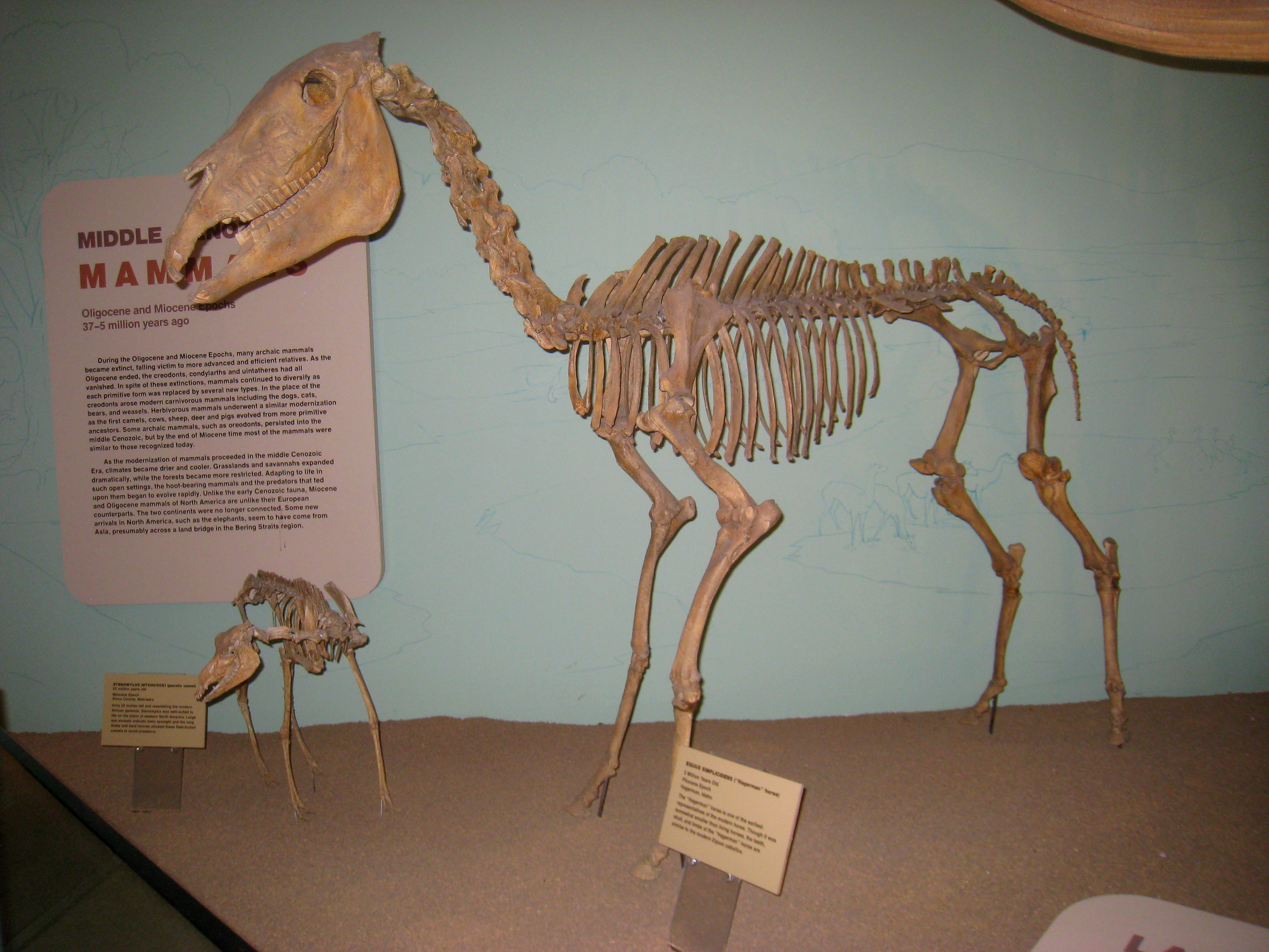 Equus simplicidens fossil in the Utah Museum of Natural History, Salt Lake City, Utah, USA.